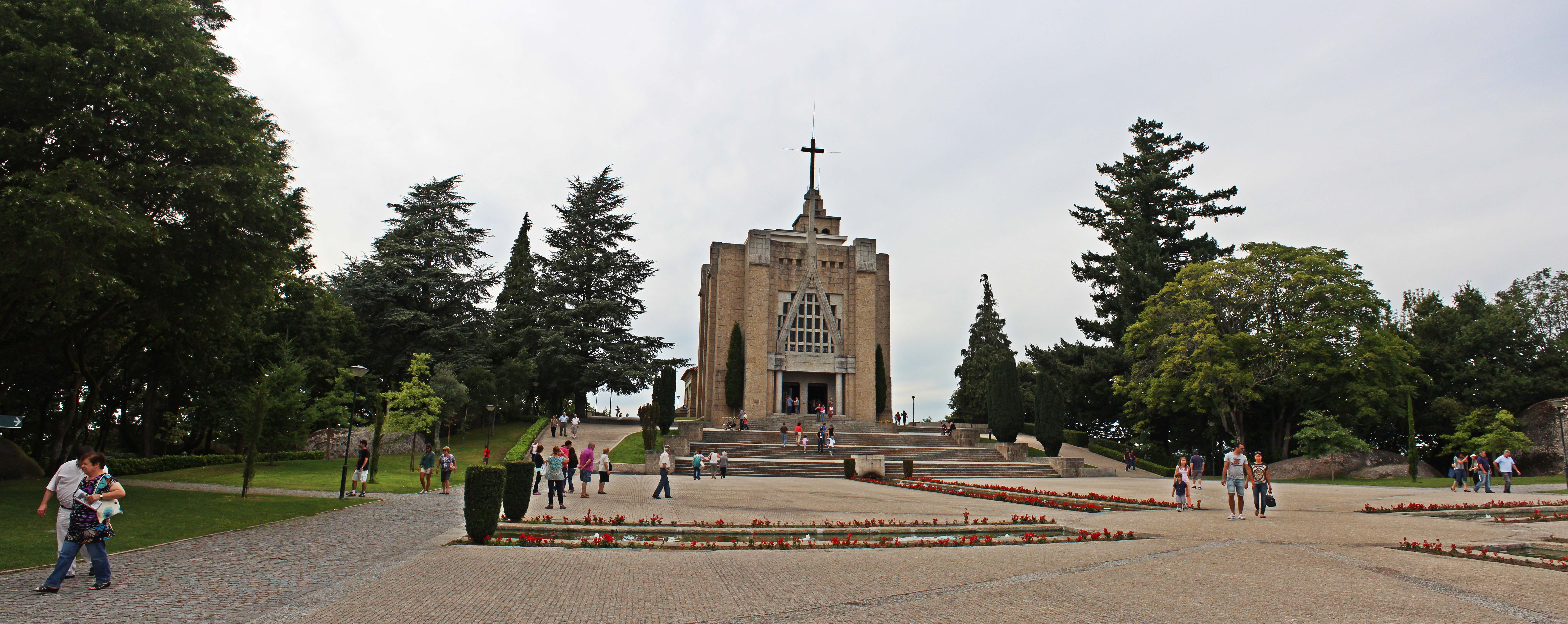 church on Penha, Guimarães